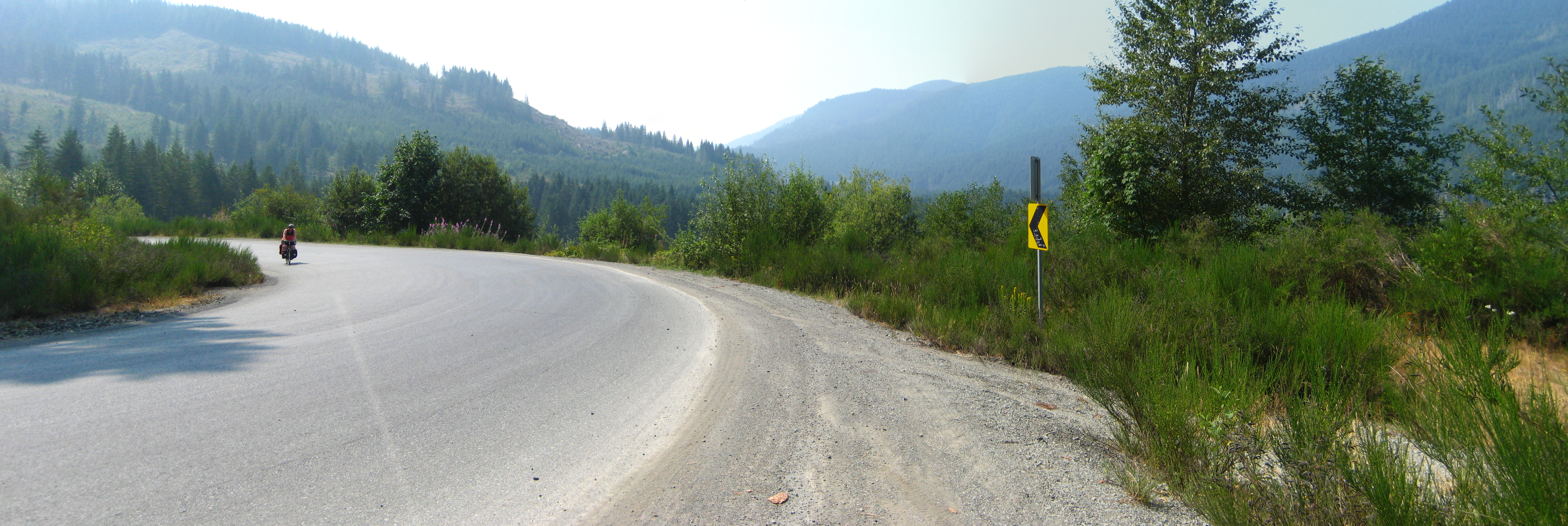 Midway up the switchbacks that form the largest part of the climb northbound toward Lake Cowichan. Amazing views!